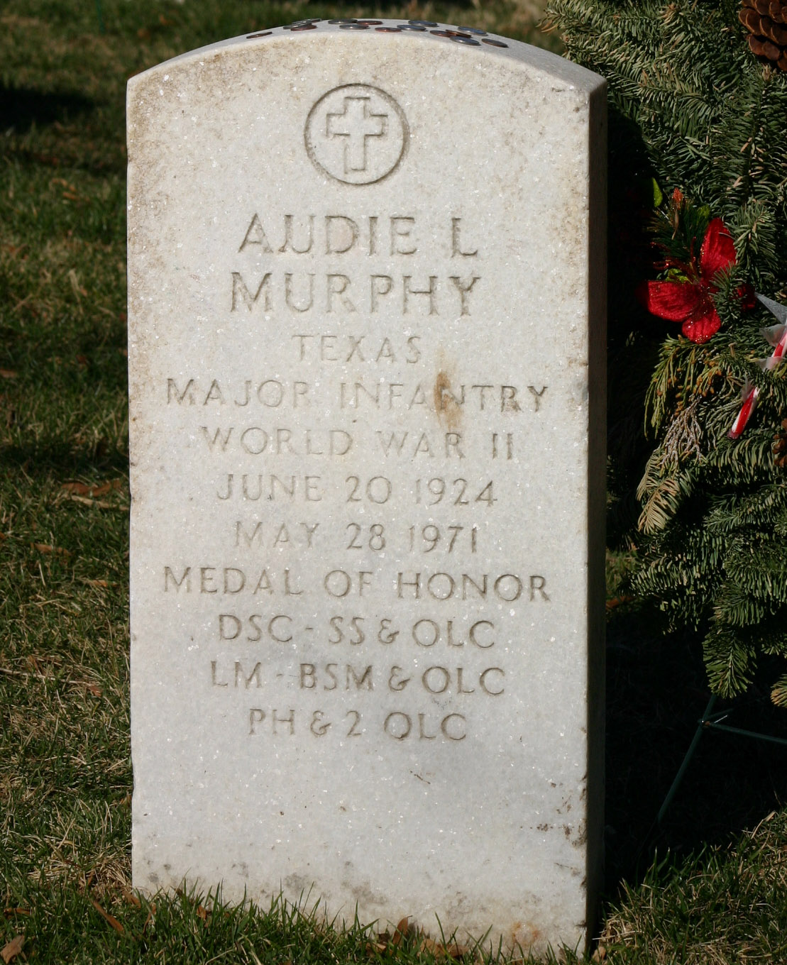 Audie Murphy's tombstone. Murphy was the most decorated American soldier who served in World War II.